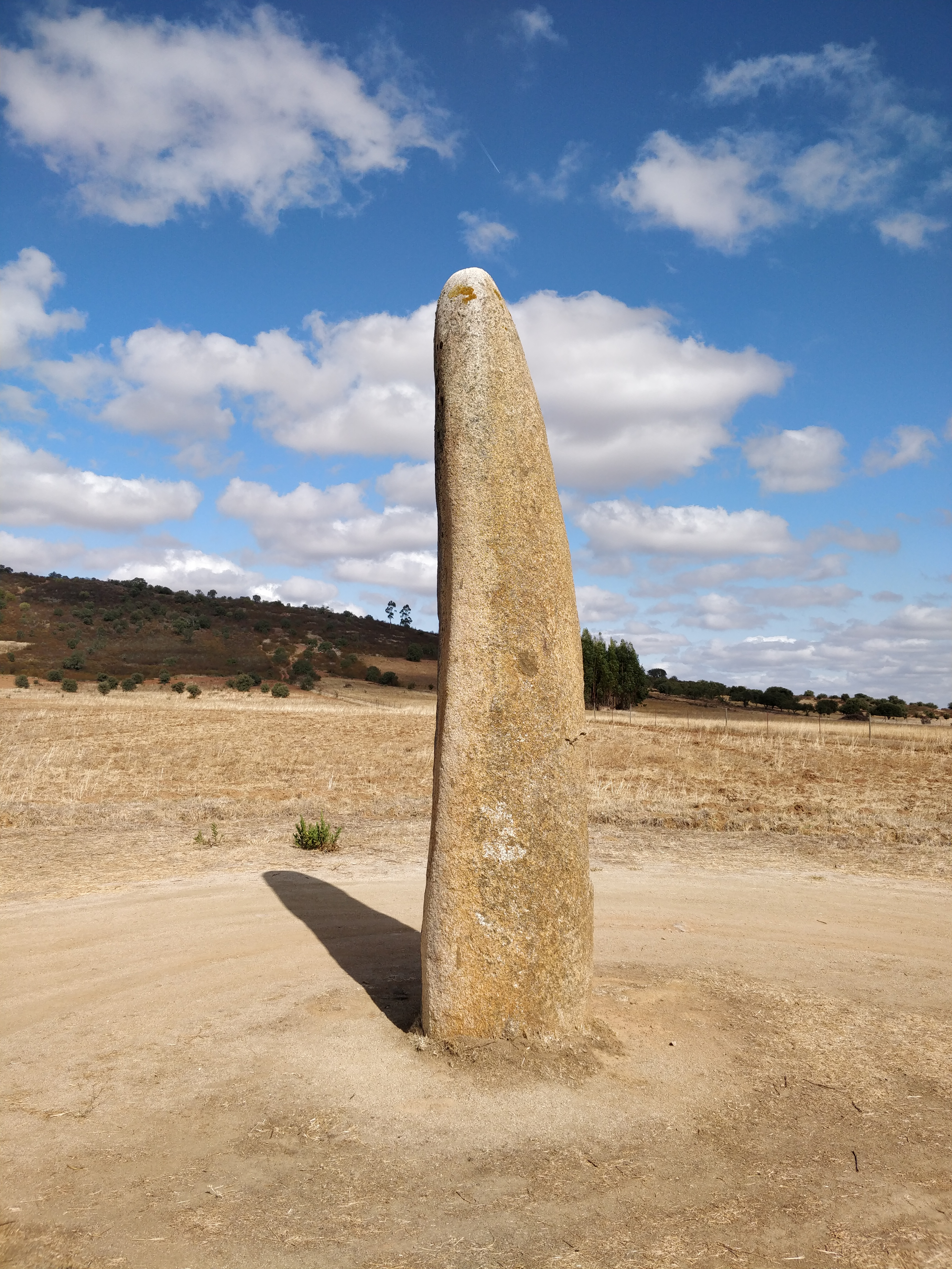 The Menhir of Outeiro is a phallic menhir found in the Evora district of the Alentejo region of Portugal